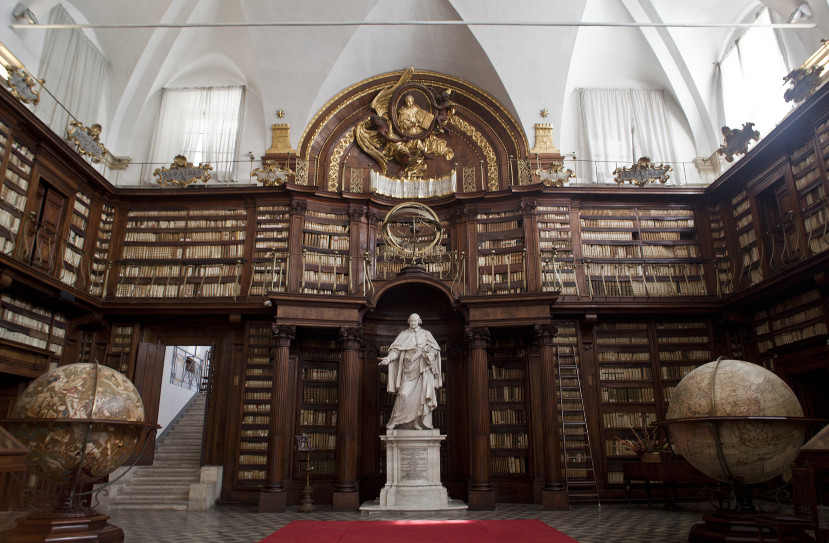 Biblioteca Casanatense with the statue of Cardinal Girolamo Casanate by Pierre Le Gros the younger - MIBAC